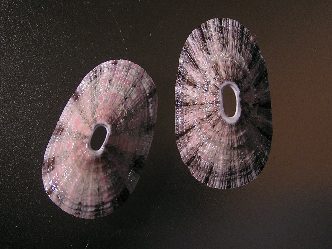 Dendrofissurella scutellum hiantula (Lamarck, 1822); a keyhole limpet from the family Fissurellidae; Cape Agulhas, South Africa